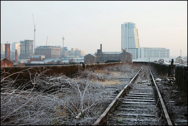 Holbeck viaduct (disused) More Holbeck viaduct pictures can be seen here